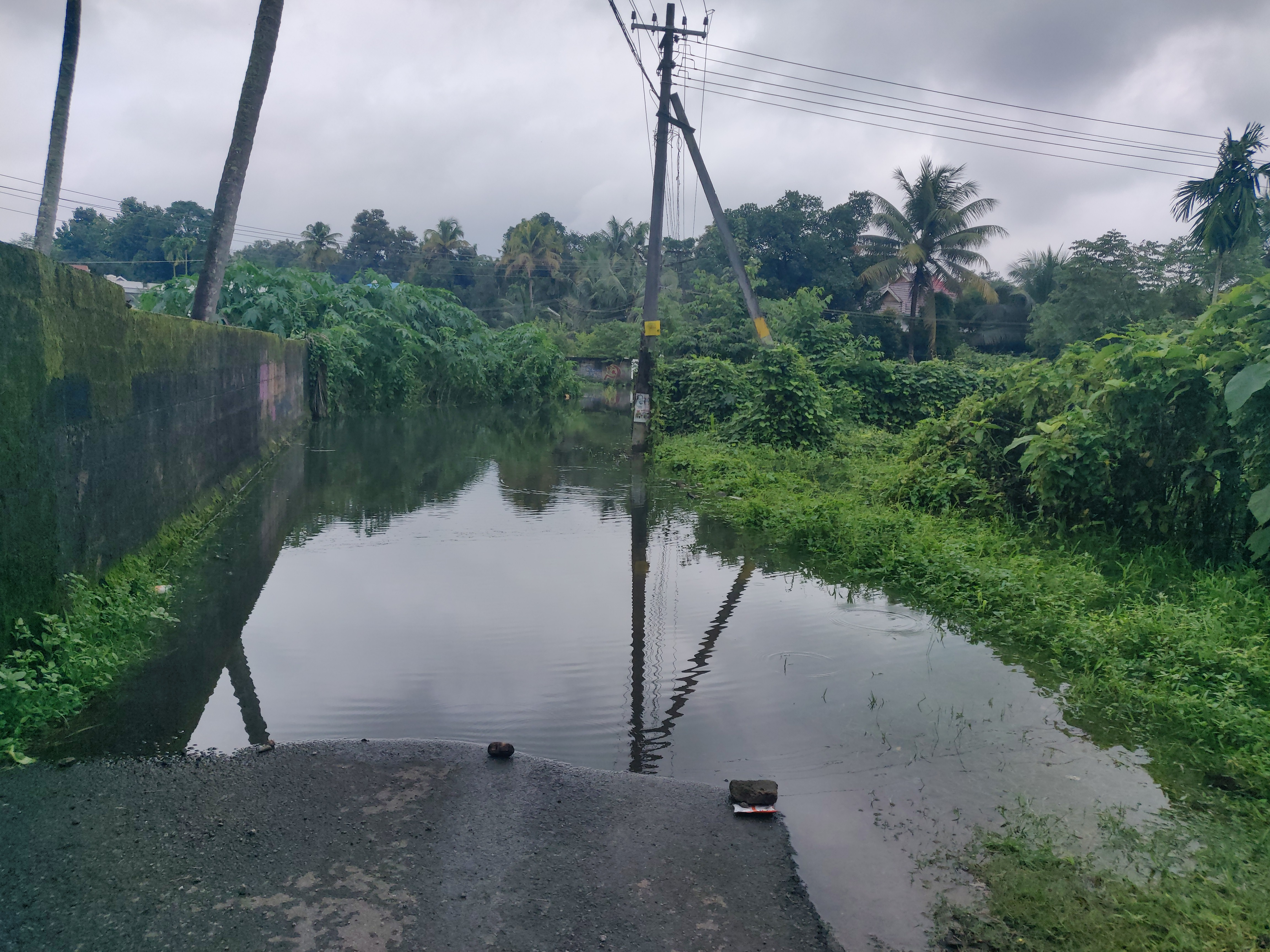 A flooded road at Angamally in 2020